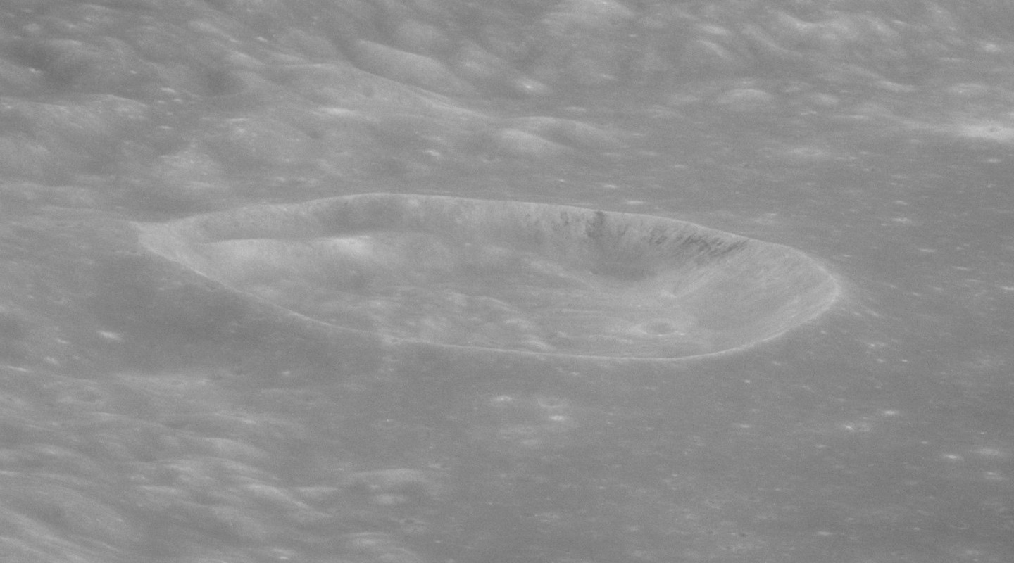 Oblique view facing approximately northeast of Virchow, on the moon.